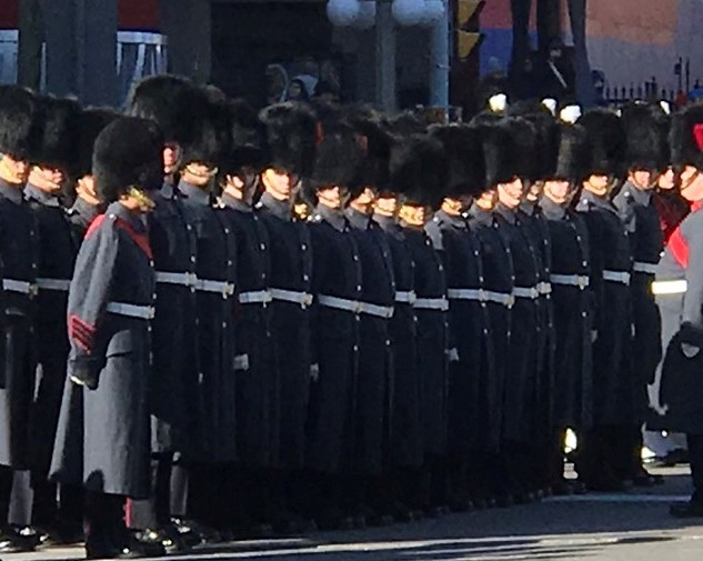 Military ceremony for Remembrance Day 2017 at the National War Monument in Ottawa, Canada